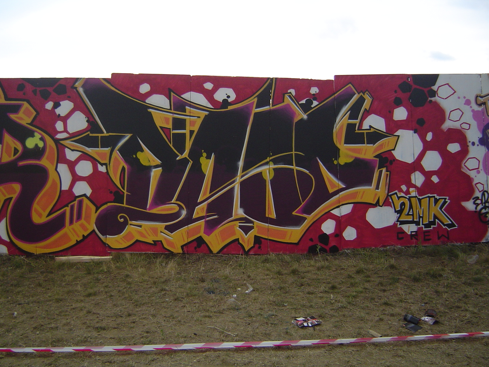 graffiti piece on the wall in slovakia